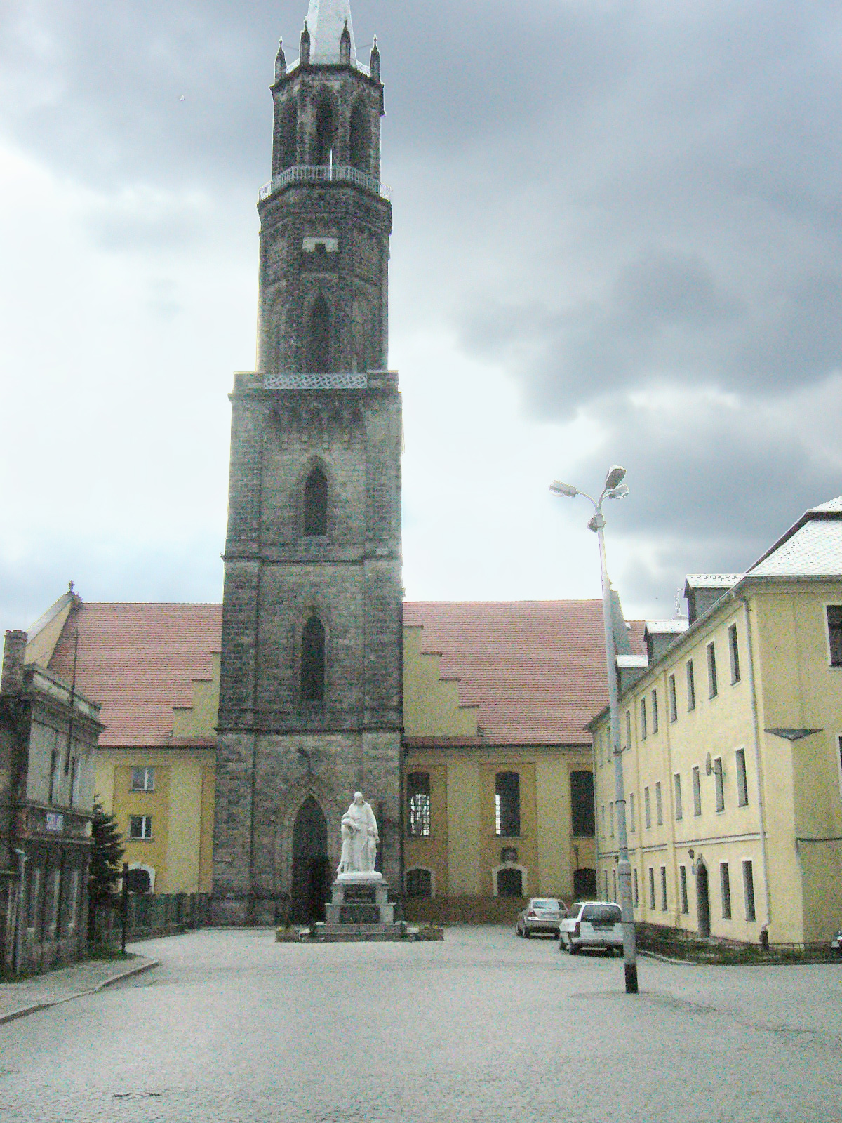 Bolesławiec, Castle Place. From castle rest only tower, the church was added after